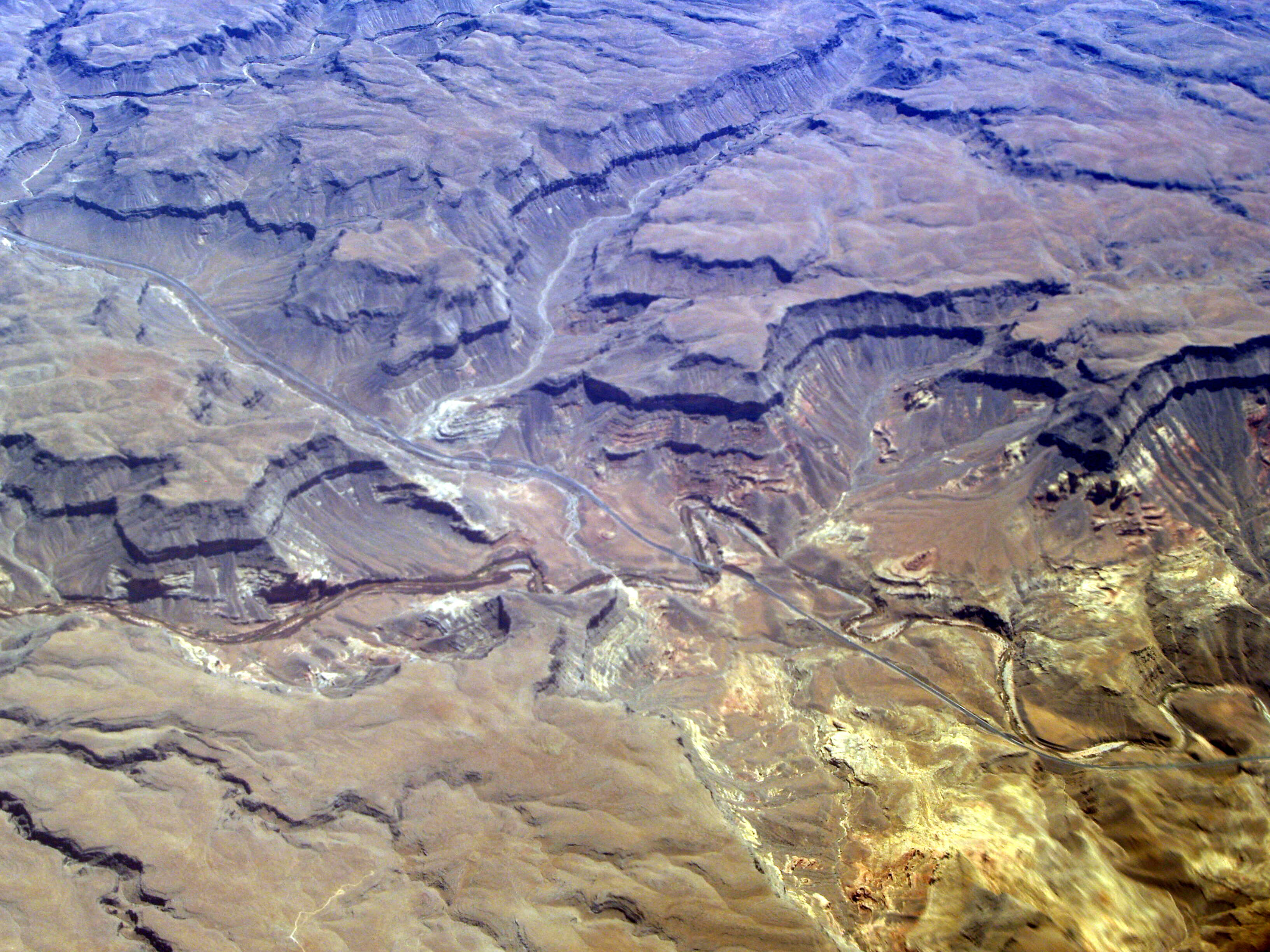 The Virgin River Gorge as seen from 20,000 feet. Interstate 15 crosses the river in this photo.